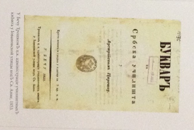 Old Serbian publishing-Serbian bookshop printed in Vienna in 1853.